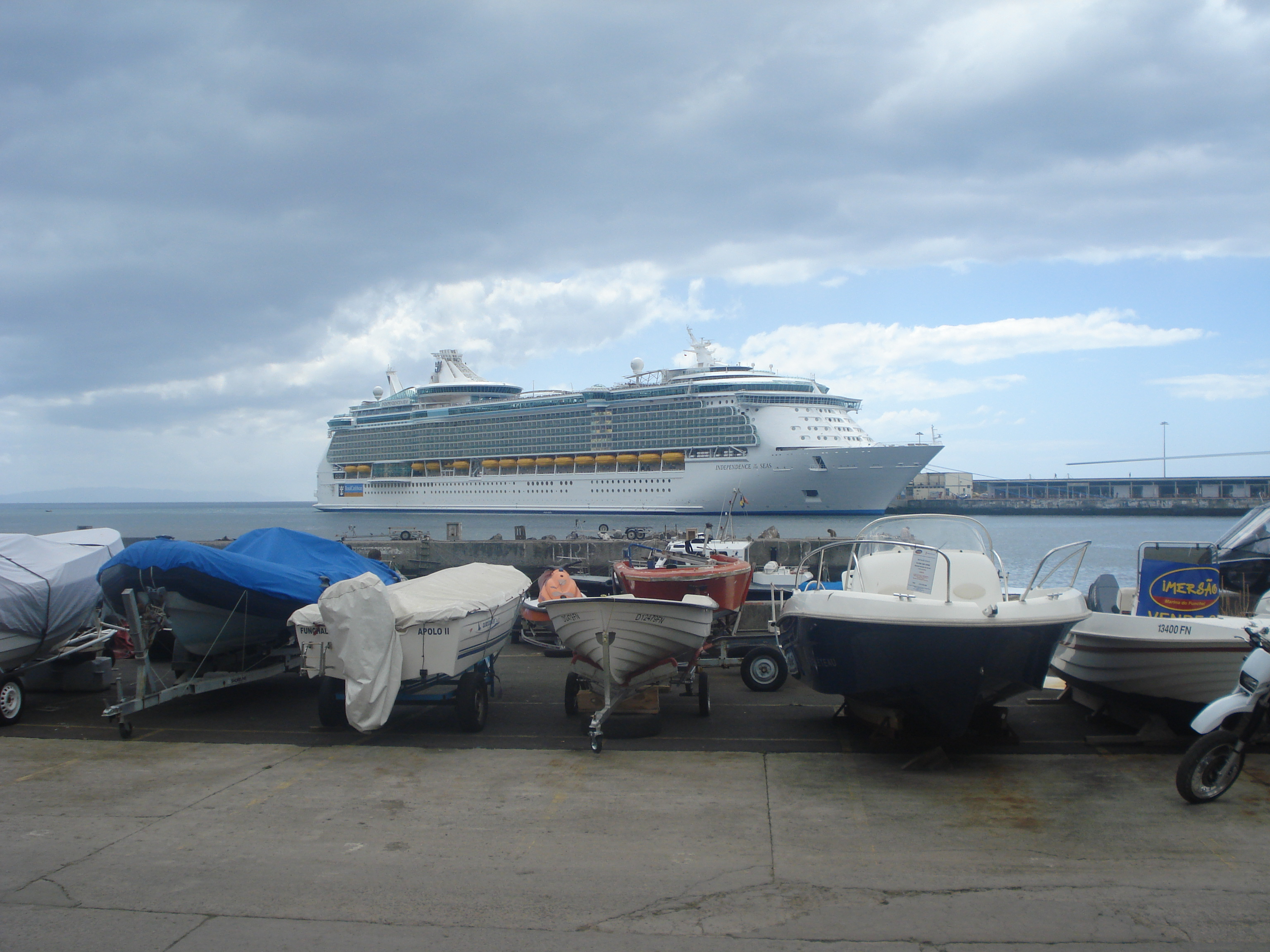 Royal Caribbean's cruise ship Independence of the Seas in Funchal